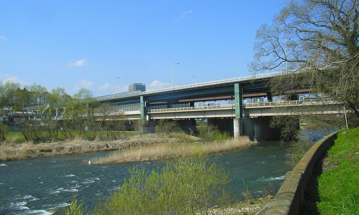 Nakanose Bridge of Hirose River - Sakuragaoka-Kōen, Aoba ward, Sendai, Miyagi prefecture, Japan. Northward.